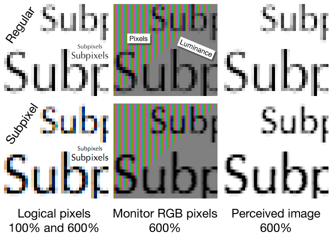 This is an illustration of subpixel rendering. The first column displays the original text at 100% size. A part of the text has been magnified 600% (each pixel in the magnification is 6×6 pixels) in a regular image editing program. The upper image does not use subpixel rendering, but does use anti-aliasing. It is completely gray-scale. The lower does use subpixel rendering. At the edges of the strokes of the letters there is noticeable colour deviations. The normal-sized subpixel rendered text should appear significantly sharper than the regularly rendered text, but only on a TFT display with RGB subpixels in that exact order. The second column displays the pixels as they would look if one enlarged an image of the monitor. The white pixels do not appear white, since the display elements are red, green and blue. In the regular rendition, the red, green and blue pixels are only controlled in triplets, i.e. a triplet of subpixels must have the same colour value. There is no such restriction in the subpixel rendered version, below. The third column shows, enlarged, how the text is perceived when the light from the red, green and blue pixels mix and form various shades of gray. The text was generated by the Quartz engine used by Mac OS X. Microsoft's ClearType subpixel rendering technology would have produced slightly different results, but the principle is the same. The font used for the example is Optima. Helvetica Neue is used for the labels.